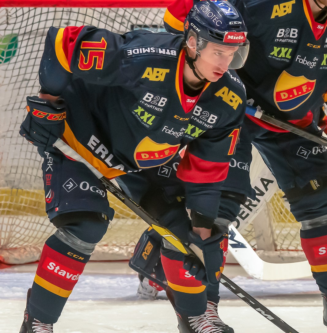 Ice hockey player Jakob Lilja during a SHL game against Färjestad BK.